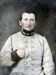 Original Daguerreotype owned by Todd Priest Non Published Work - Email owner: for permissions for commercial use